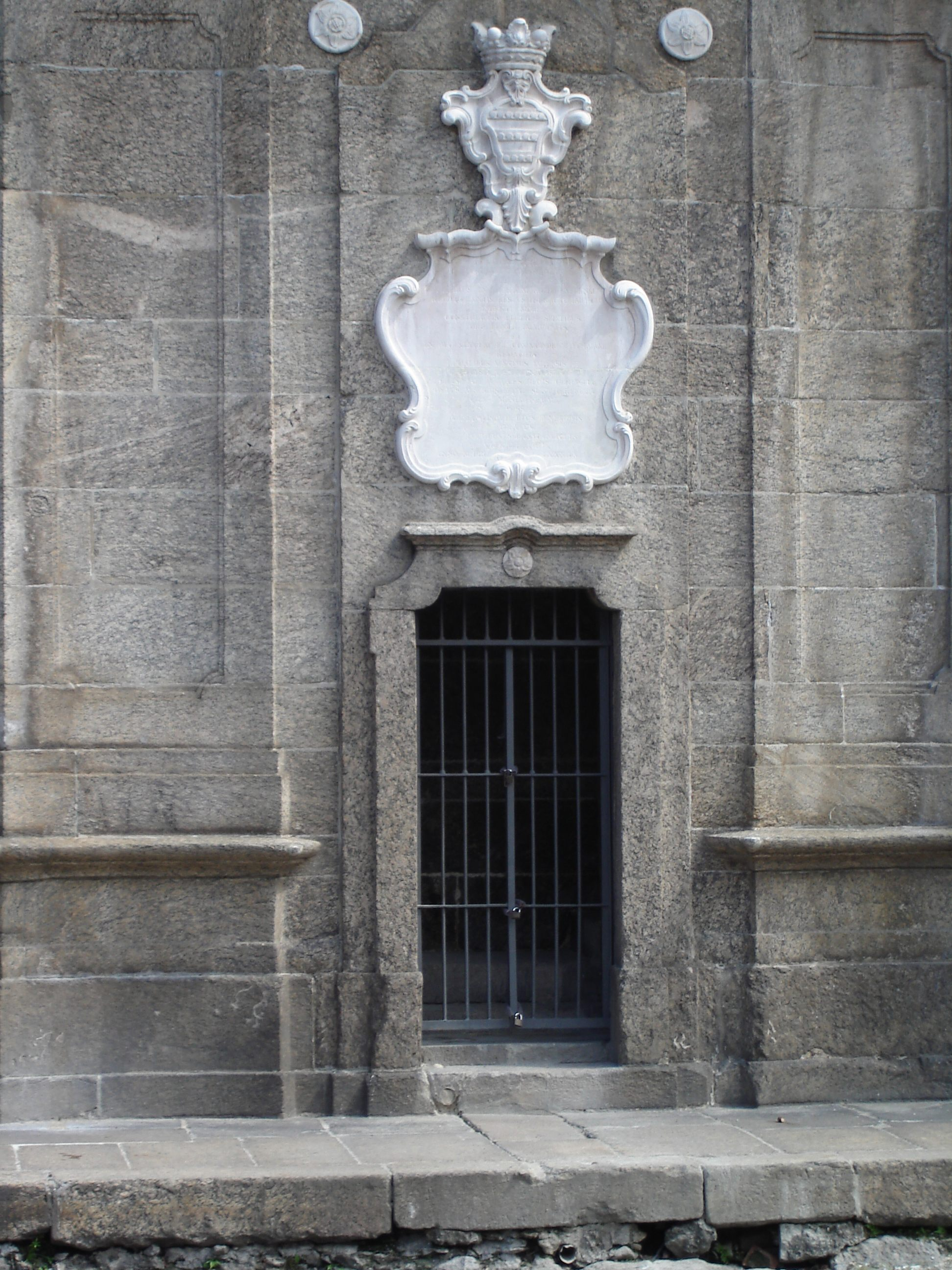 Pyramid Fountain, built in augen gneiss by Mestre Valentin, 15 Square, Rio de Janeiro City, Brazil.